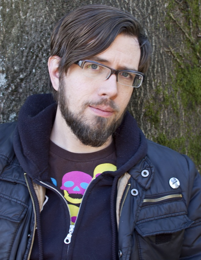 Steve Gaynor, Game Designer.